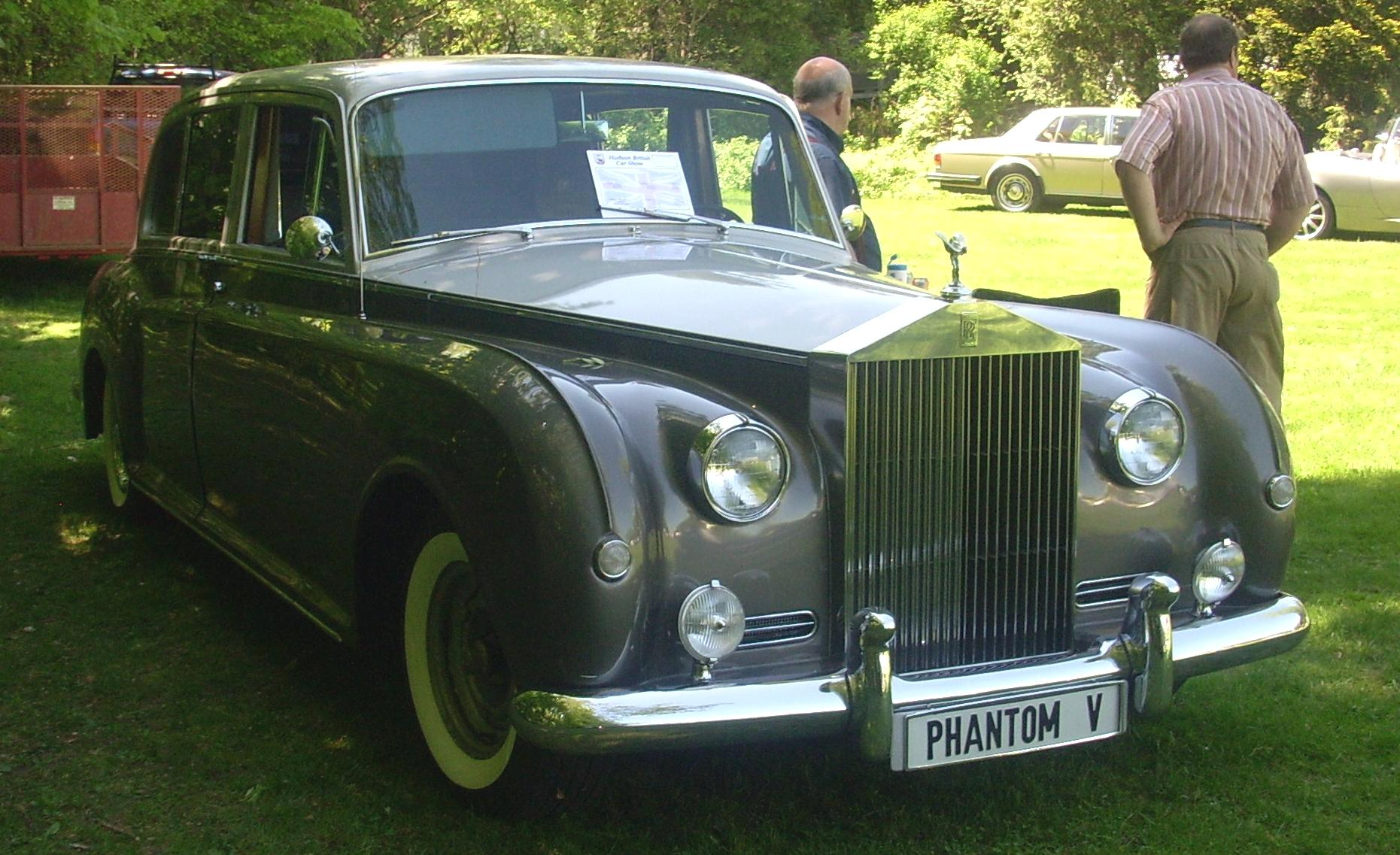 1968 Rolls-Royce Phantom photographed at the 2008 Hudson British Car Show